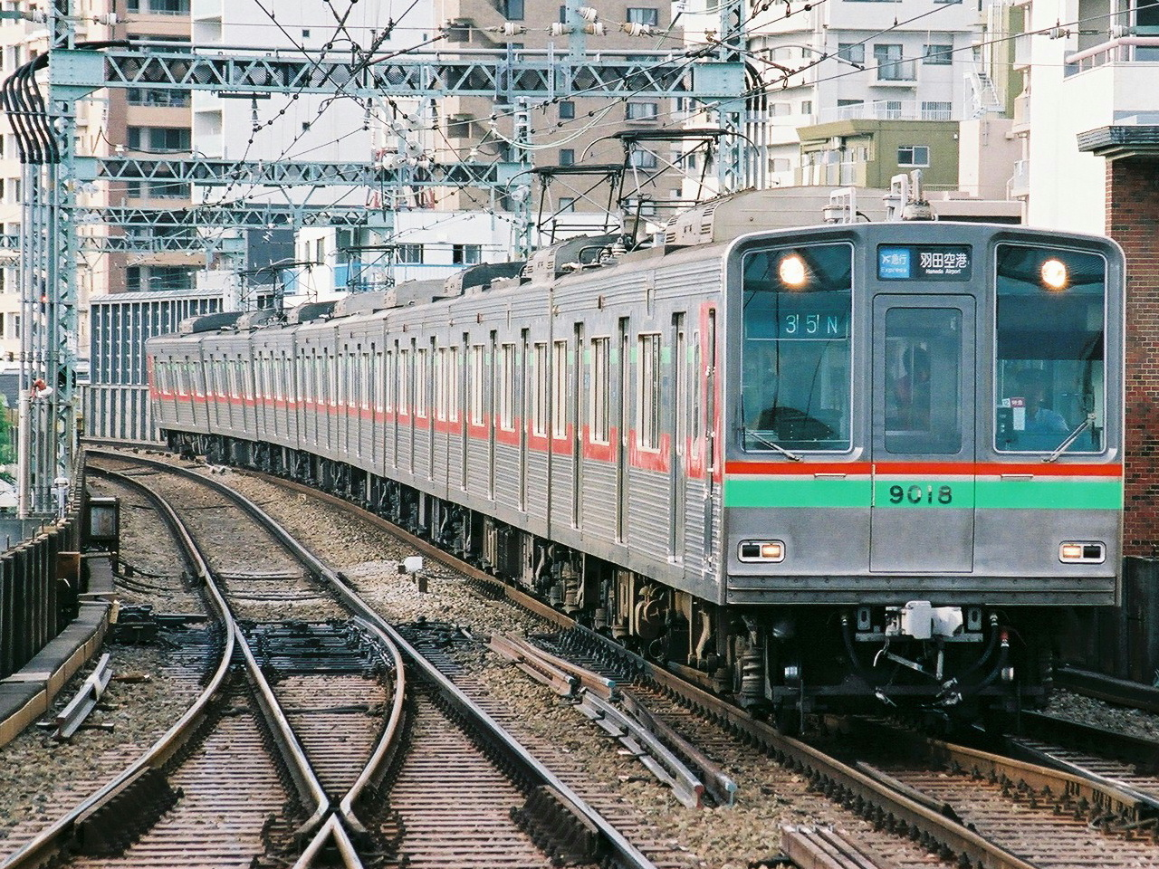 Chiba Newtown Railway 9000 series, No.9018. On "Airport Kyūkō" express train, at Heiwajima Station.